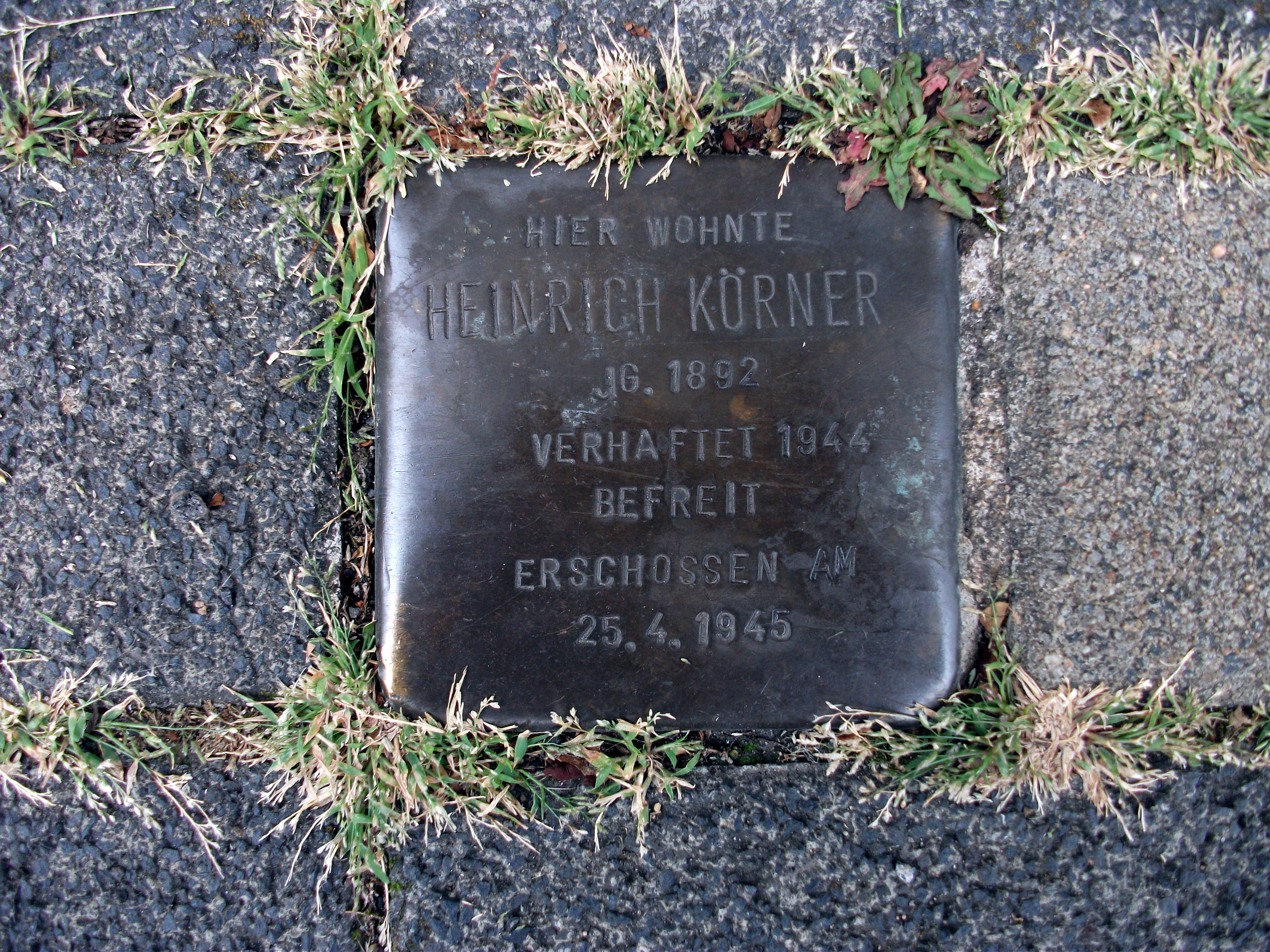 Stolperstein for Heinrich Körner, Reuterstraße 153, Bonn